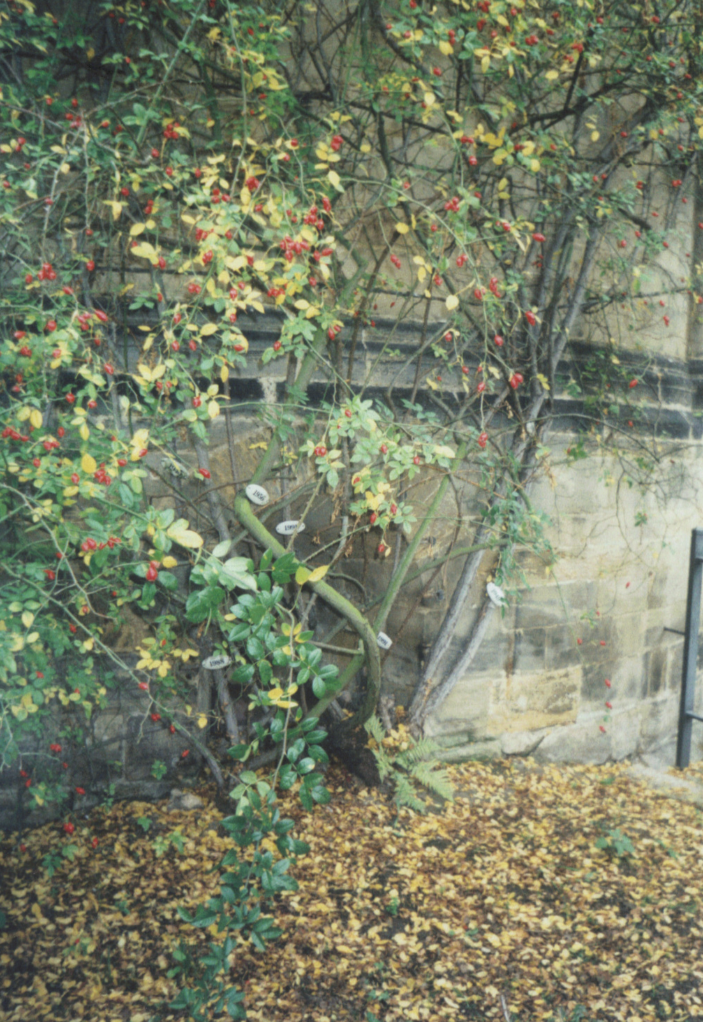 Branches of the 1,000 year old rosebush in the cathedral of Hildesheim.